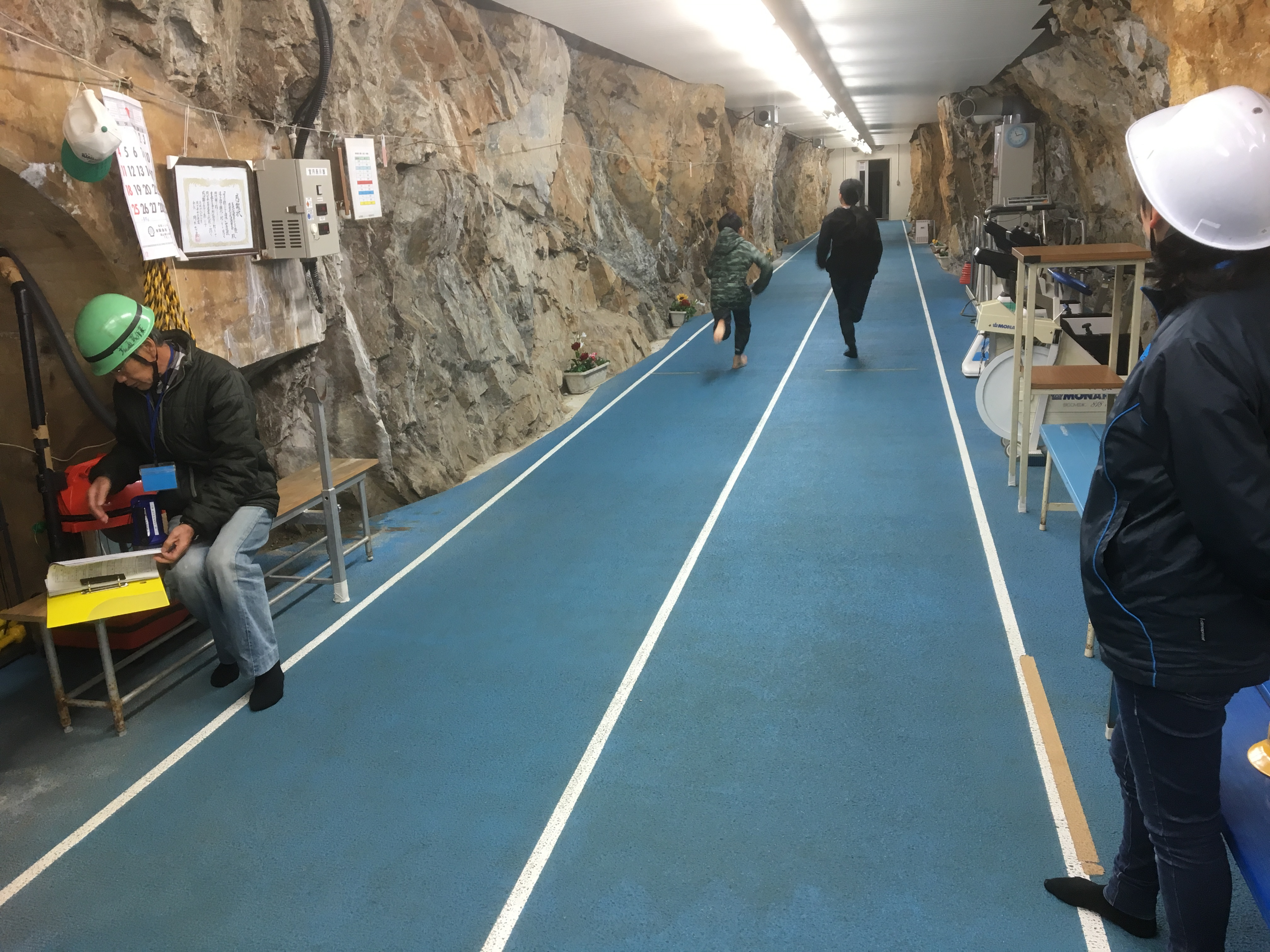 yanahara-mine (FeS) Gate 12-2016 Okayama-pref JAPAN Exercise load practice facility in low oxygen environment. It was made using old tunnel